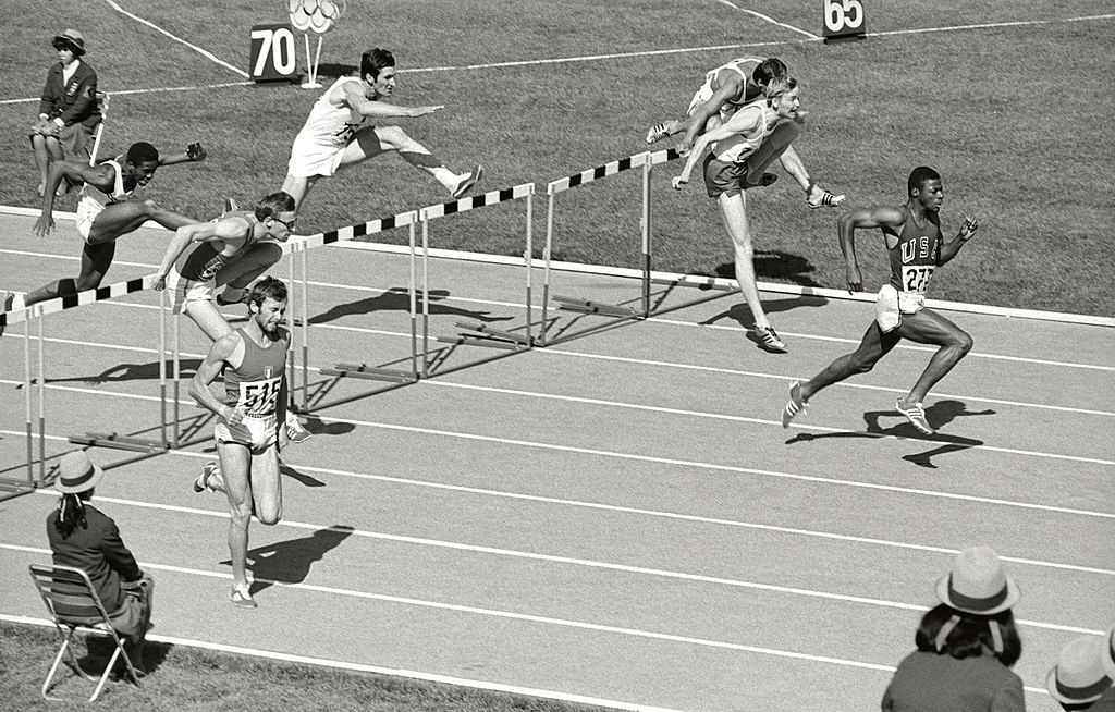 Final phase of the first semi-final of men's 110 metre hurdles in Mexico City Olympics, where the Italian Eddy Ottoz, number 515, finishes second; the other racers, from the left, Juan Morales, Pierre Schoebel, Daniel Riedo, Hinrich John, Bo Forssander and the winner, Erv Hall. Mexico City (Mexico), October 17, 1968.